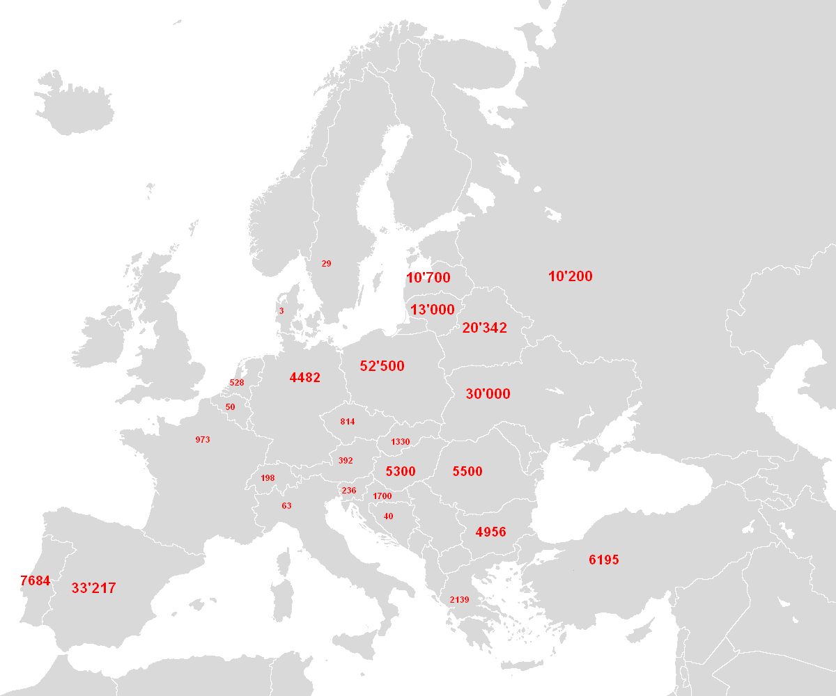 Results of the 2004/05 White Stork census (breeding pairs) - data